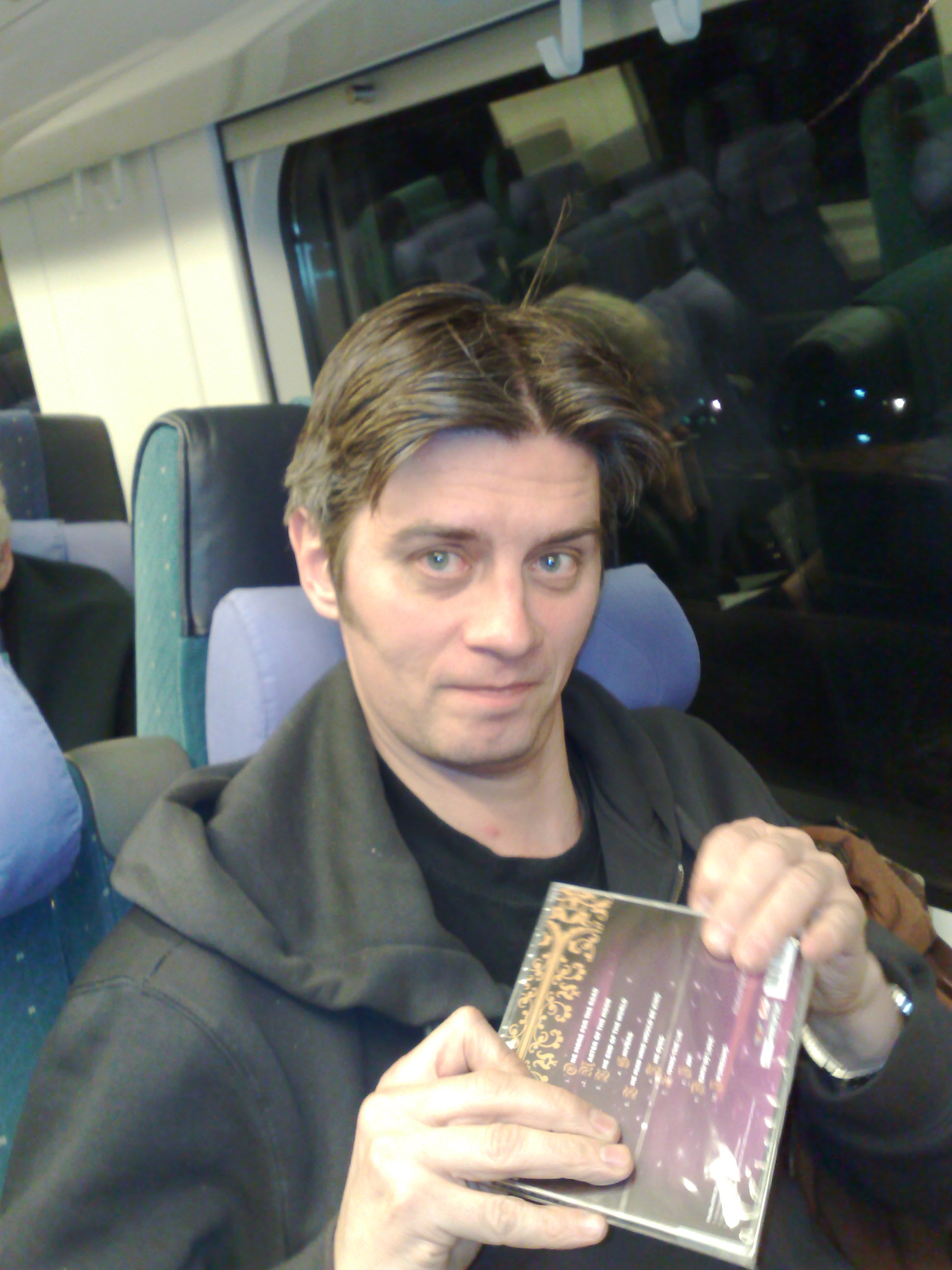 Author/Actor Reidar Palmgren in spring 2008